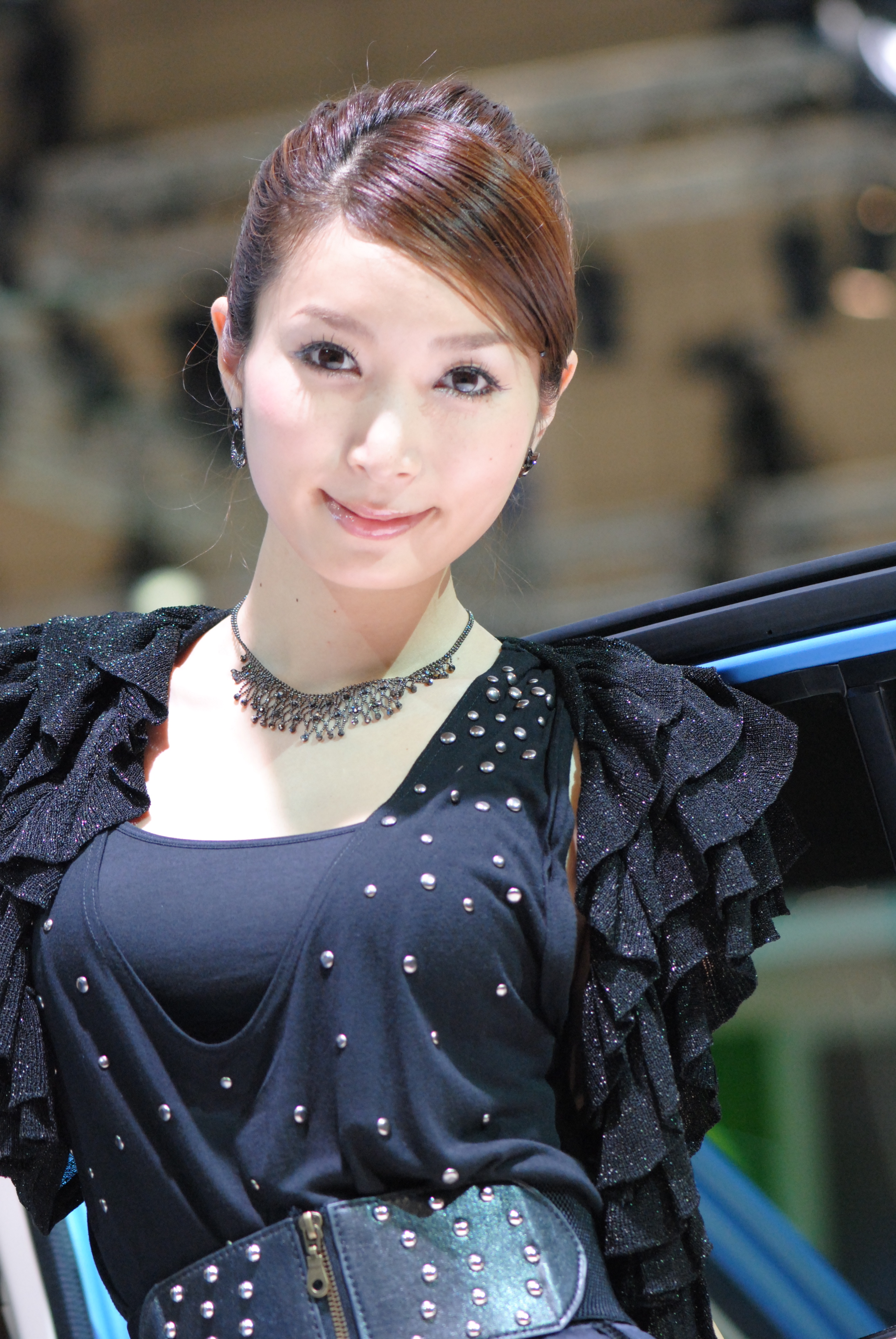 Tokyo Motor Show 2009